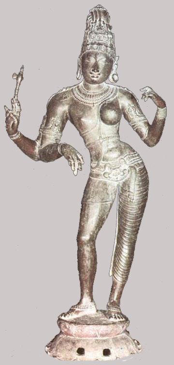 A Chola Bronze from the eleventh century CE. Shiva in the form of Ardhanari/Ardhanariswara. [1] Cleaned up using Photoshop. Saline Hansen discovered it juin 13th 2004.